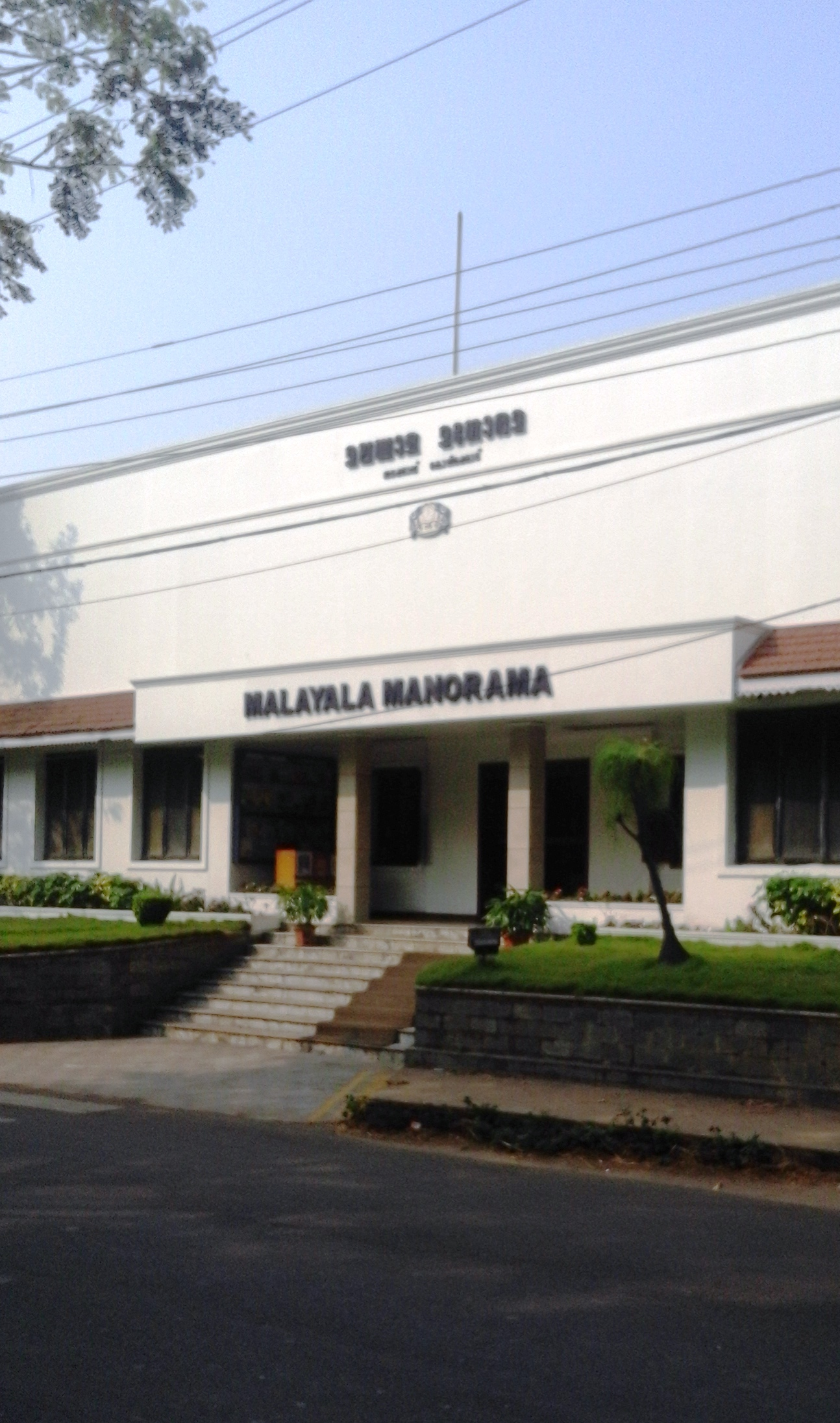 Kozhikode, Kerala province, India.